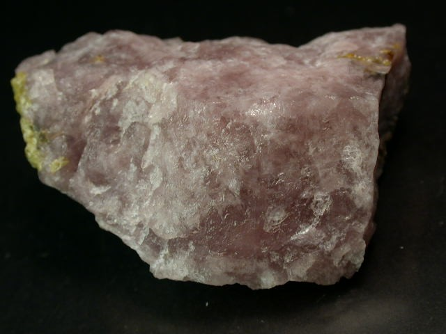 Ussingite Locality: Shkatulka pegmatite, Umbozero mine (Umbozerskii mine), Alluaiv Mt, Lovozero Massif, Kola Peninsula, Murmanskaja Oblast', Northern Region, Russia Original description: A 4.2 by 2.9 cm light violet crystalline mass. JSS specimen and photograph.